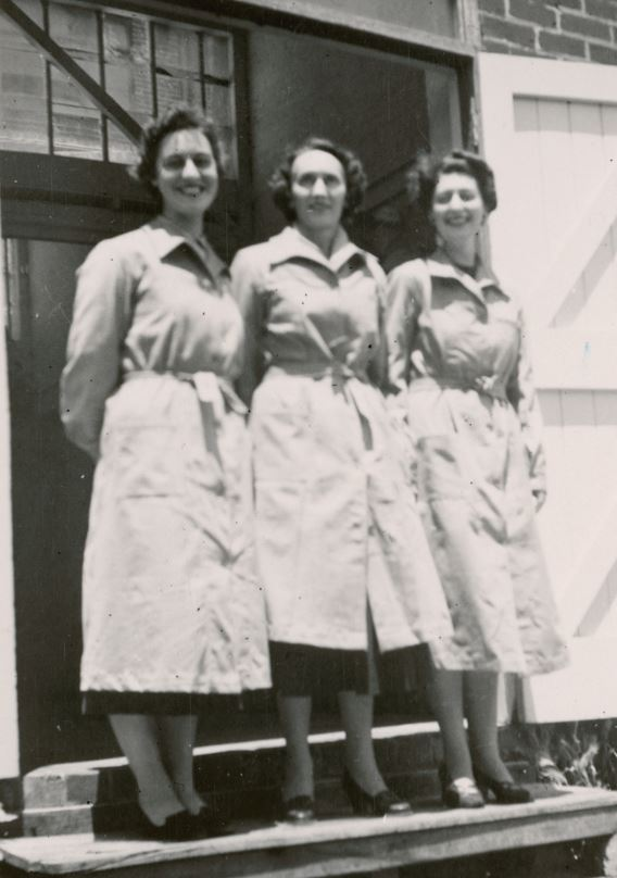 Three women standing outside a doorway